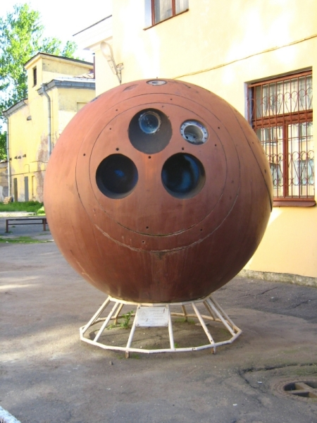 Smirnova street (St.-Petersburg), space vehicle "Zenit" near Russian Medical Military Academy's space medicine department